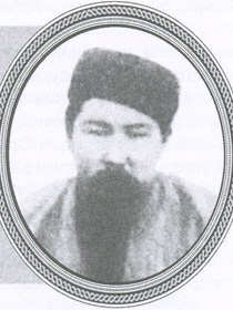 Baktygerey Kulmanov, a member of the first and the second Russian State Duma, 1906-1907